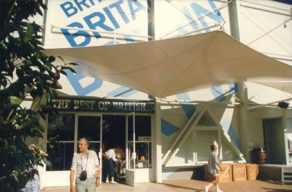 Outside the British pavilion at Expo '88 ( this photograph was taken by Figaro )